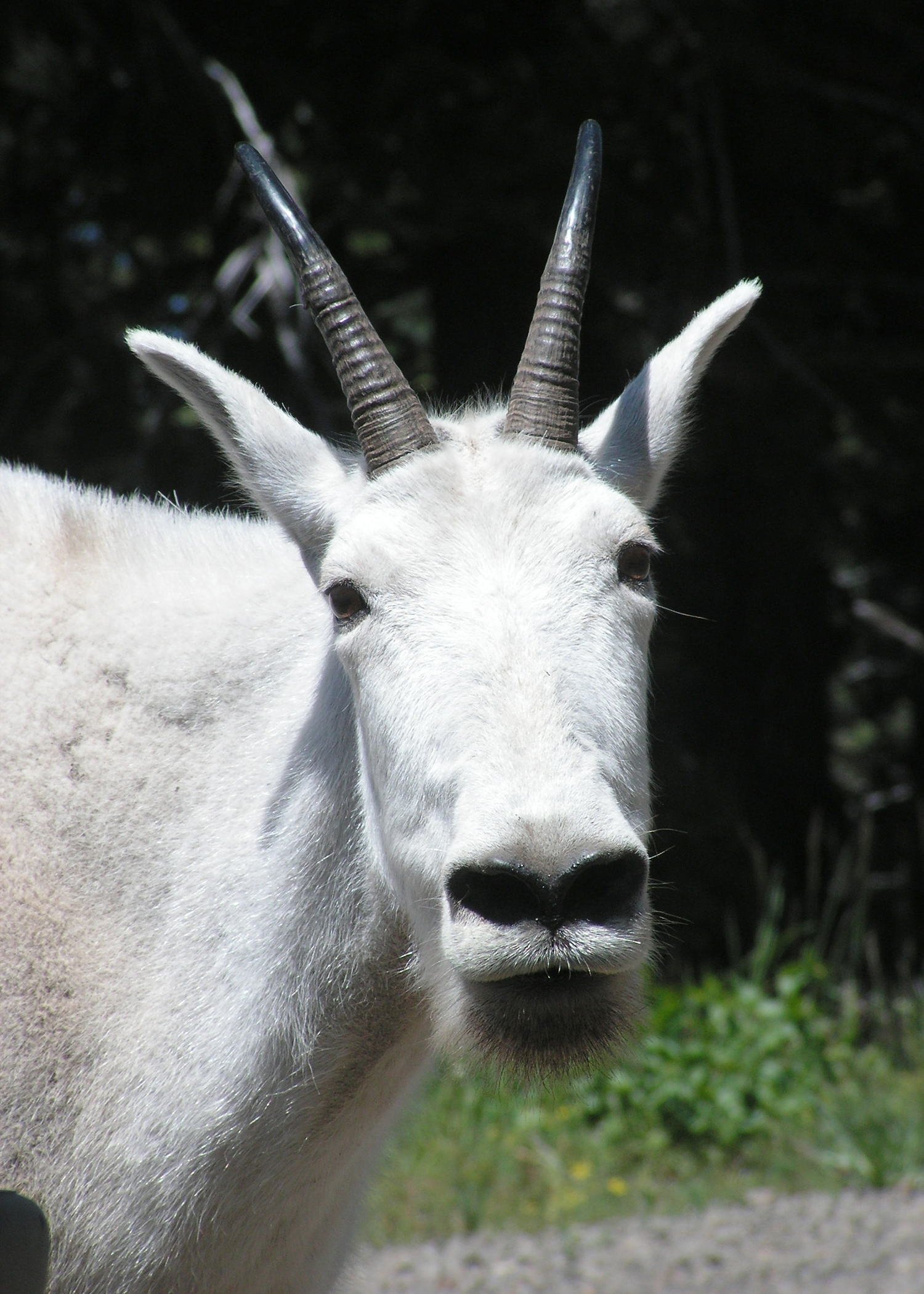 023_mtn_goat_indian_rock_paustian_odfw